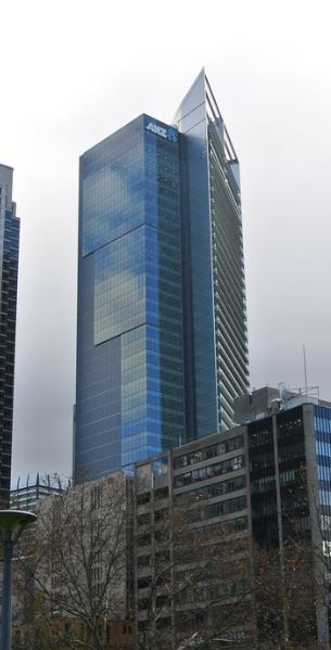 ANZ Bank Centre / tower / building